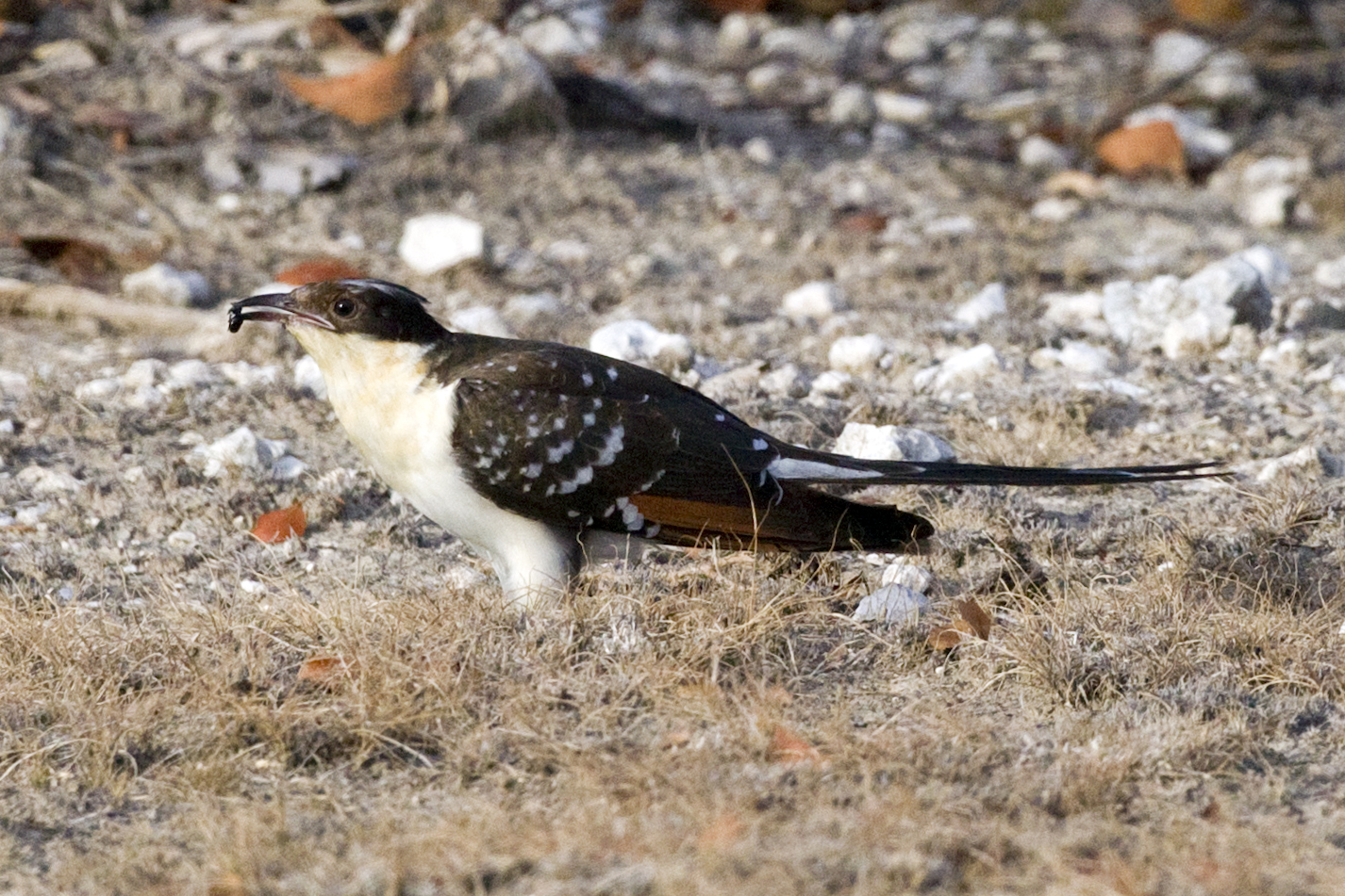 Great spotted cuckoo in Etosha National Park